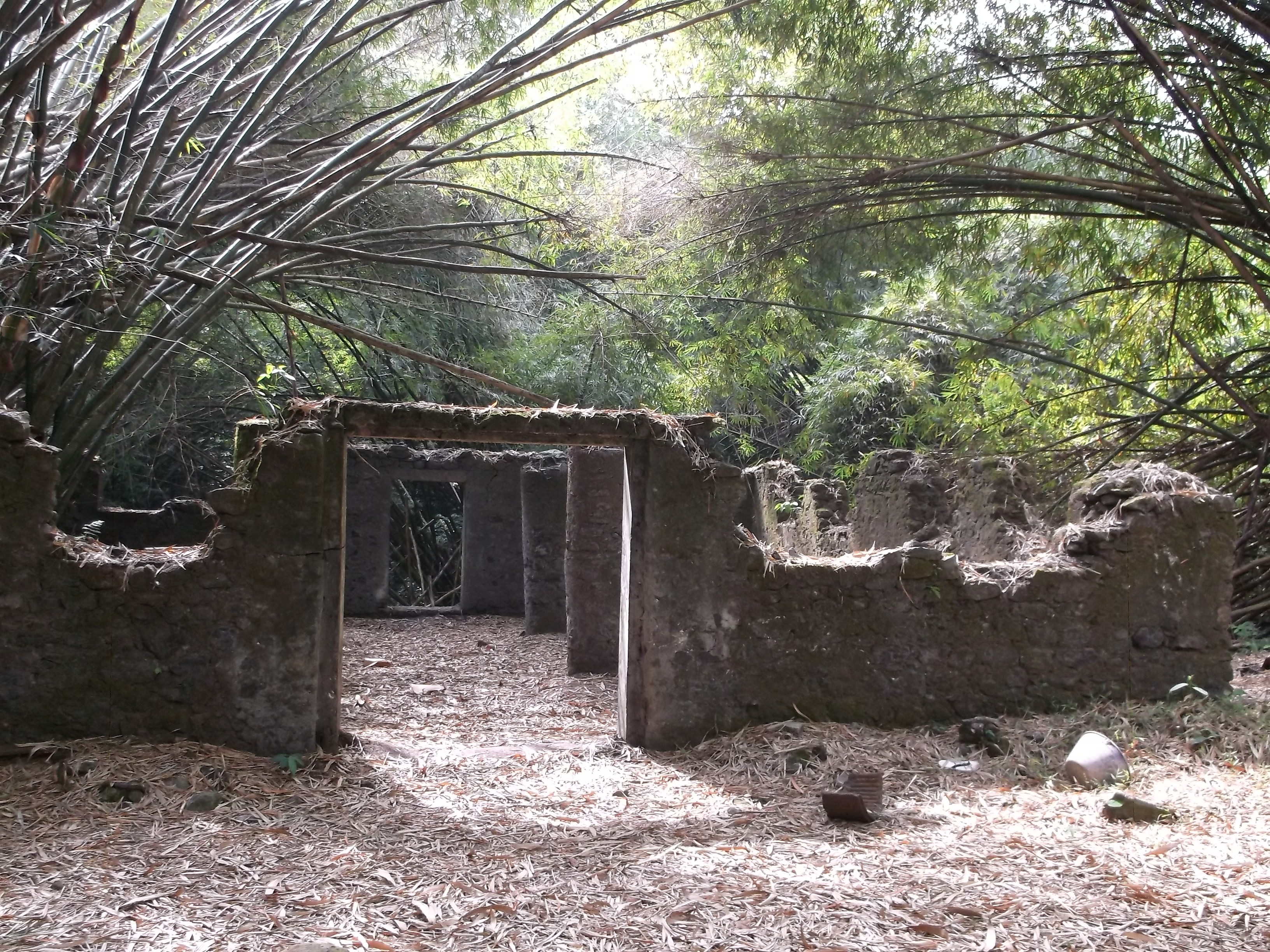 Where slaves were keept during the atlantic slave trade before transportation